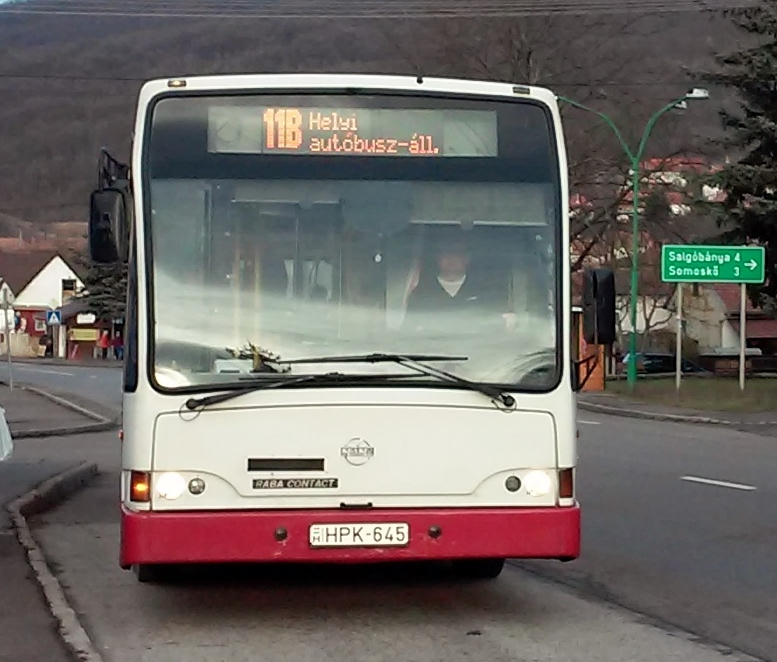 Rába Contact bus on 11B line of Salgótarán on Route 21 in Somoskőújfalu